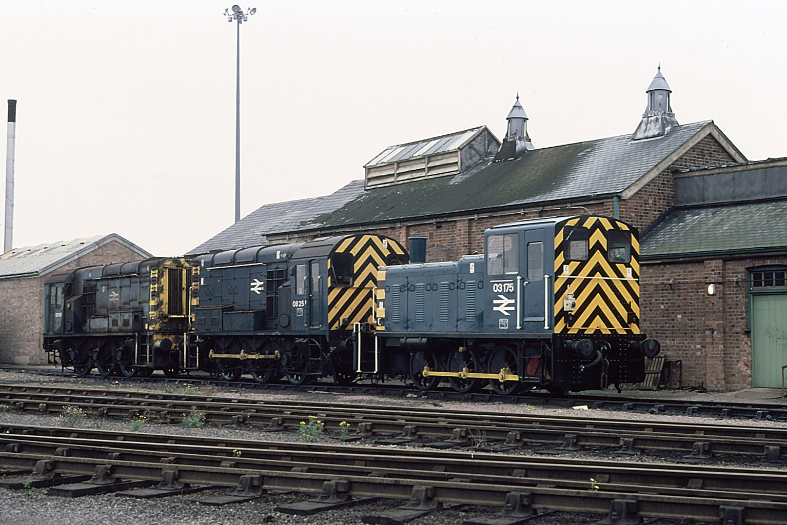 March Railway Depot, near to March, Cambridgeshire, Great Britain. Shunters layover at the weekend beside what I believe to be an old steam shed at this depot beside Whitemoor Yard. These depot buildings were demolished in 1987 and replaced with a modern facility. The depot closed in 1995 and an industrial estate has been built on the site.